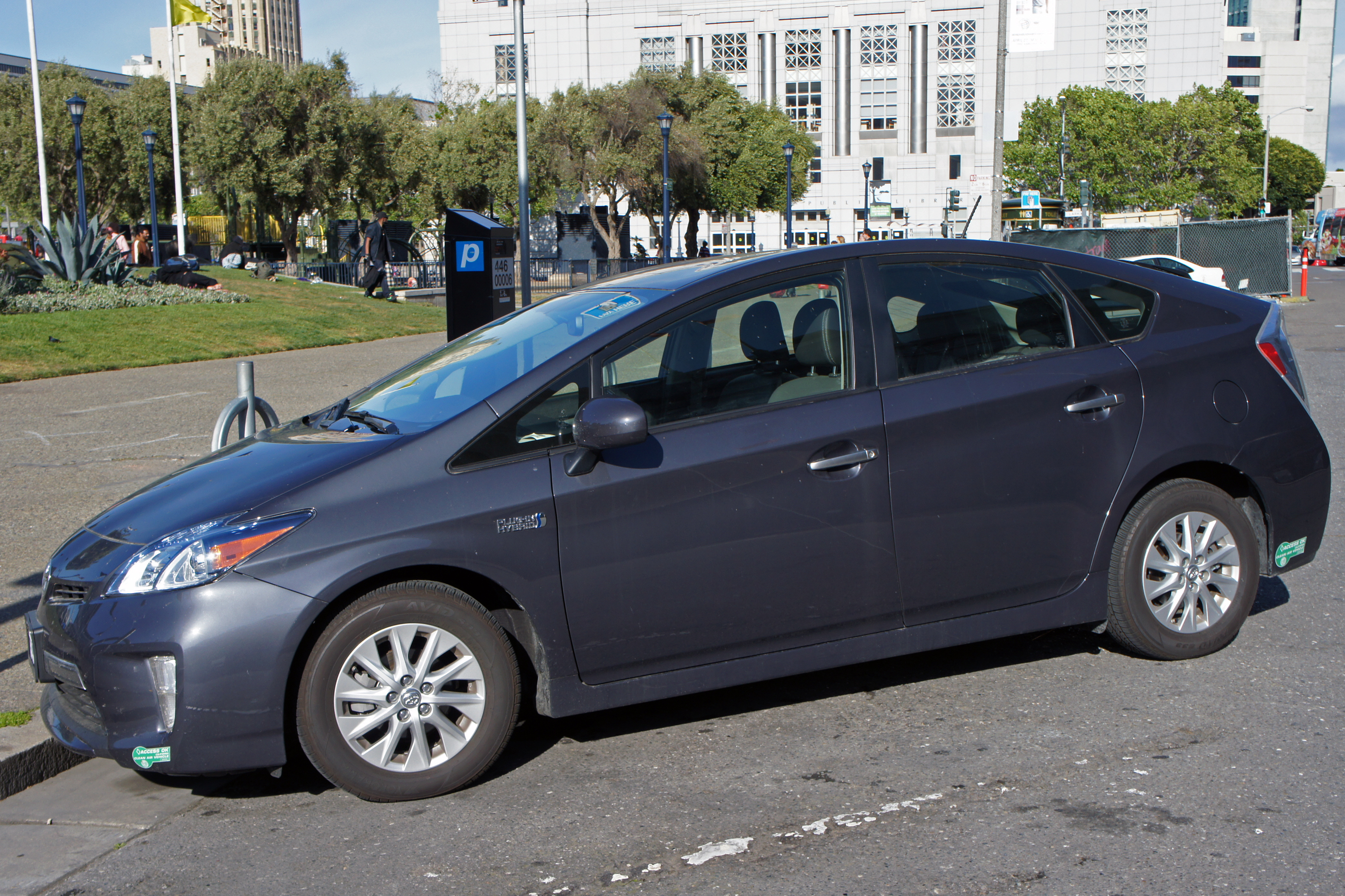 Toyota Prius Plug-in Hybrid at Civic Center Plaza, San Francisco